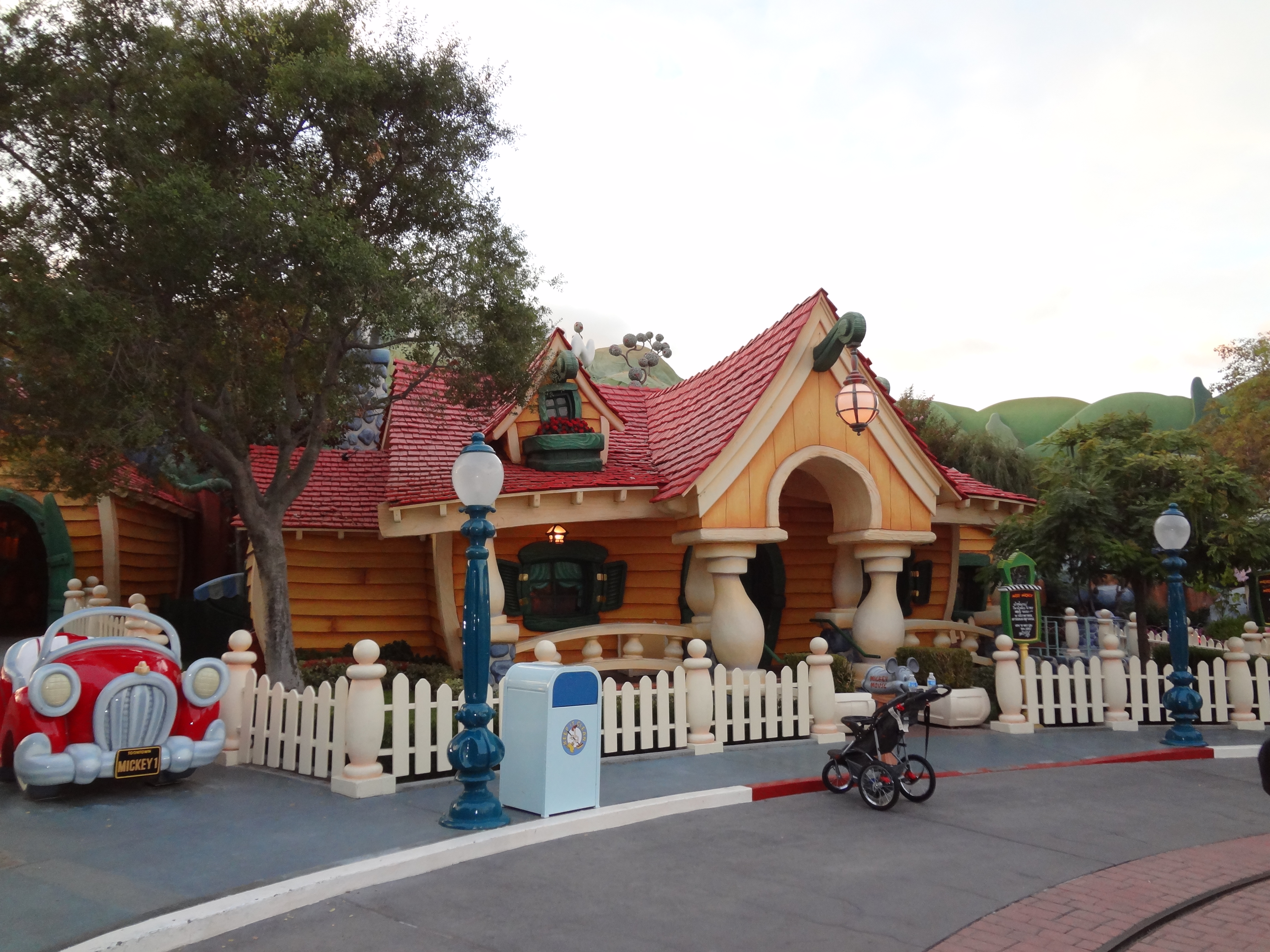 Visit my travel blog at Xcellent Trip for great travel tips about some of the most popular world destinations. This is picture from Disneyland park in Anaheim, Los Angeles (LA), California (CA) United States of America (USA).